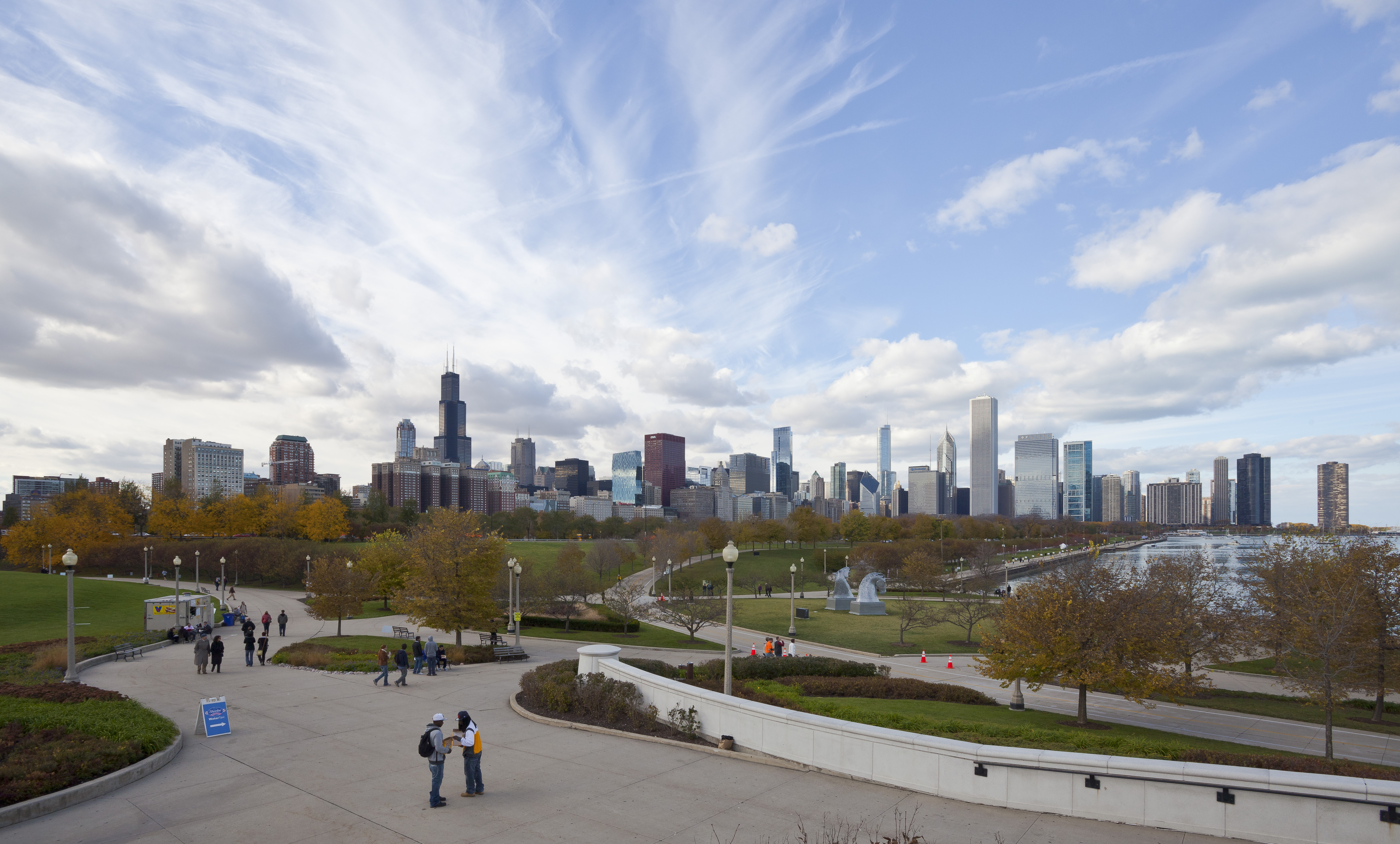 Chicago skyline, Illinois, USA